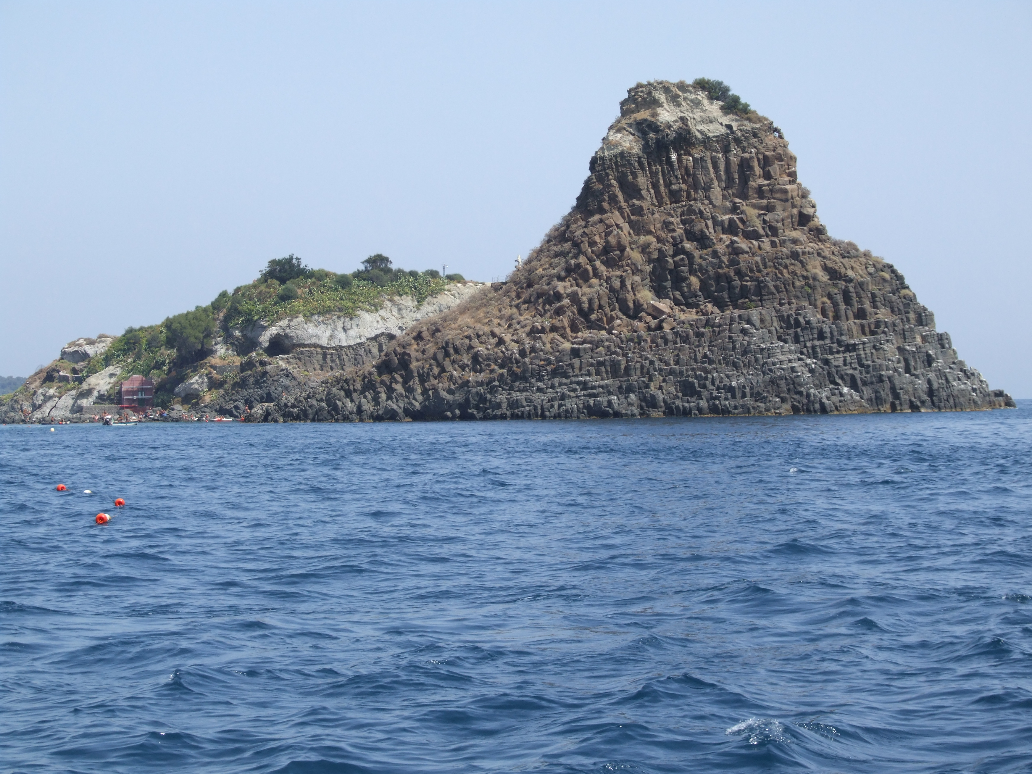 Faraglioni dei Ciclopi Aci Trezza Aci Castello Sicily Sicilia Italy Italia Castielli CC0